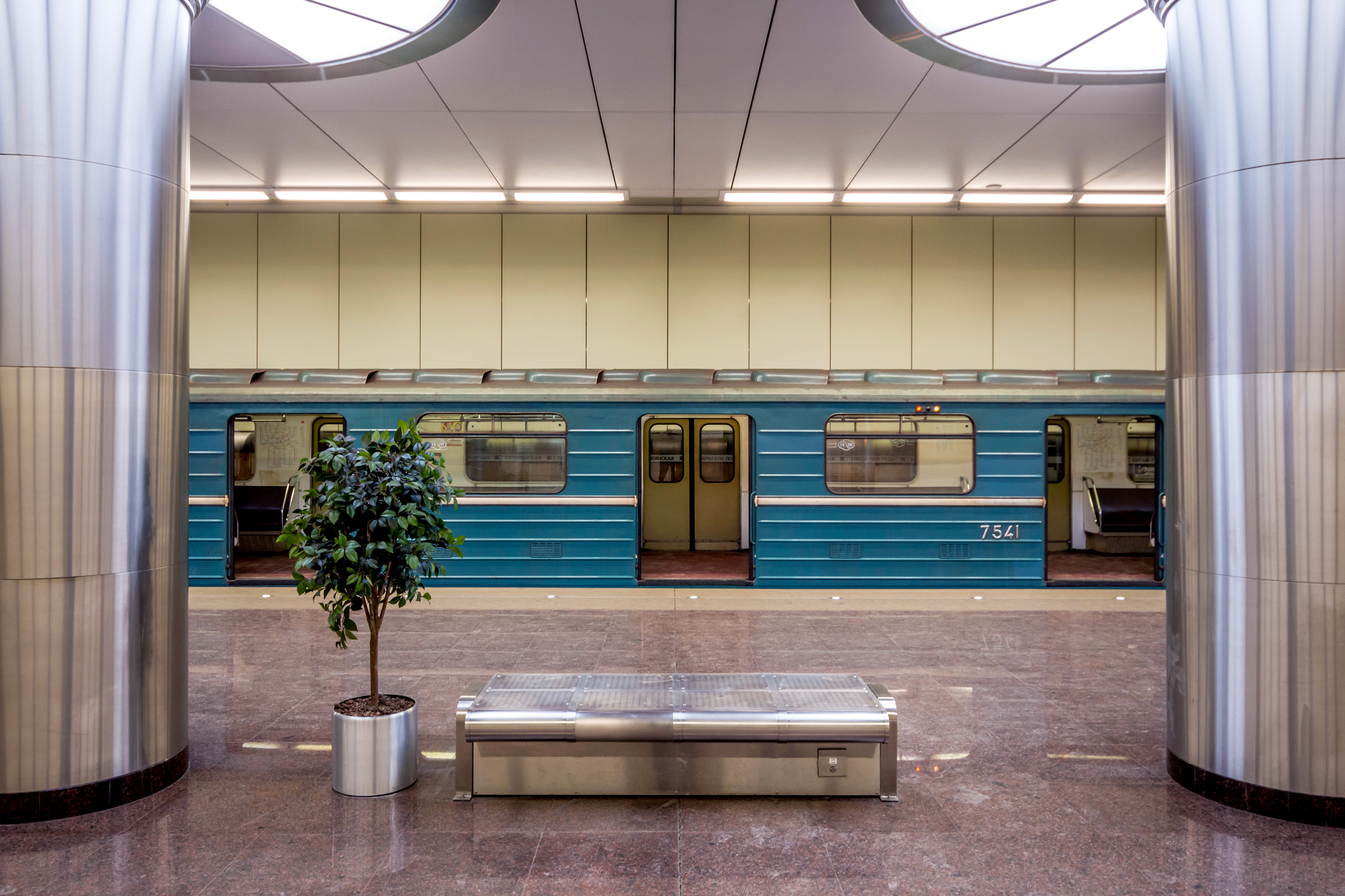 Kotelniki Station of Moscow Subway